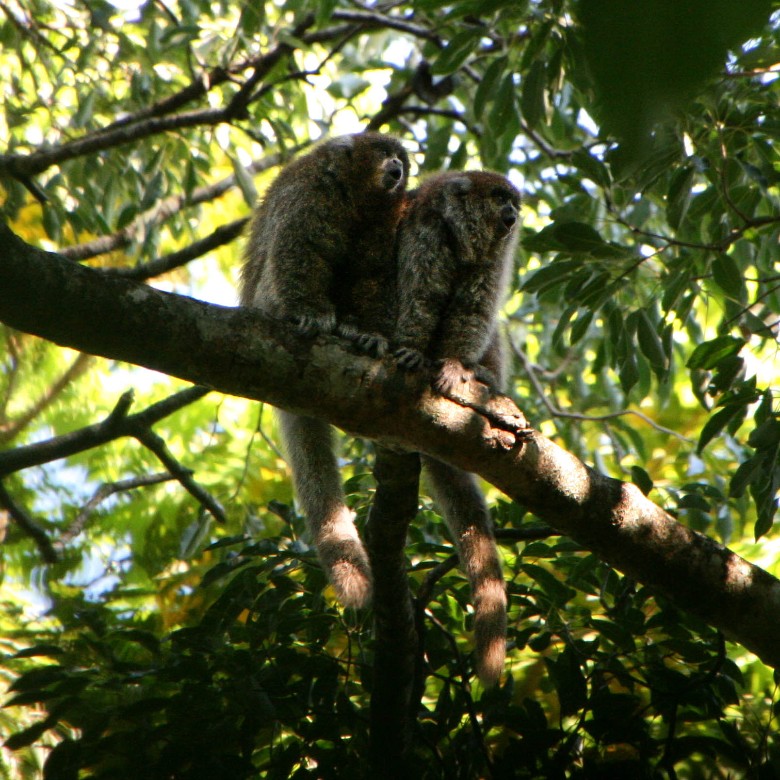 White-eared titi (Callicebus donacophilus) duetting